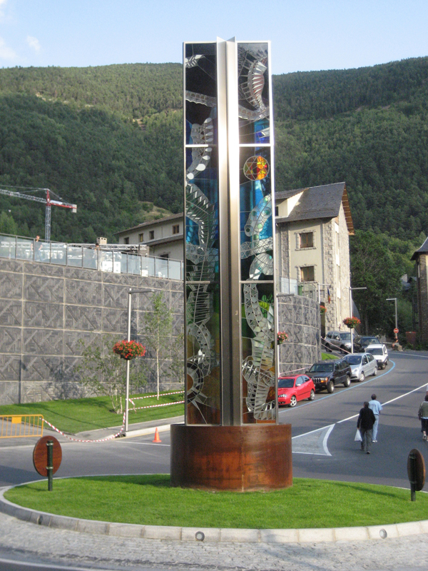 Obelisk in Ordino (Andorra).